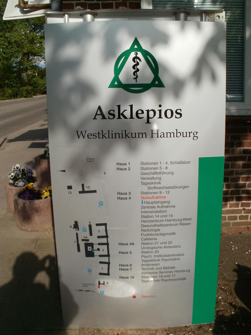 Sign at the entrance of Asklepios_Westklinikums_Hamburg in Hamburg-Rissen, Germany.